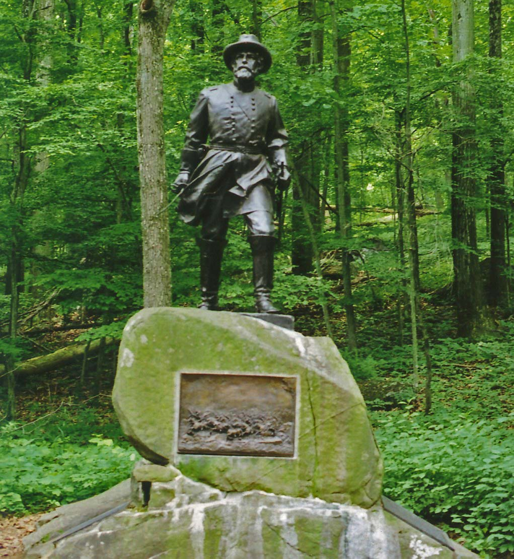 Statue of Major General William Wells by J. Otto Schweizer at Gettysburg battlefield (1914)